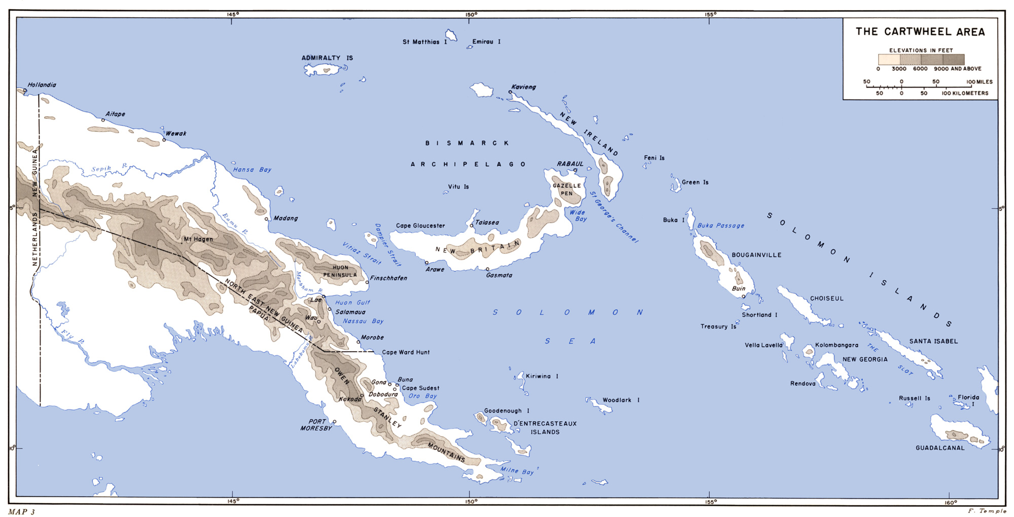 Map of the area in which Operation Cartwheel took place during 1943 and 1944